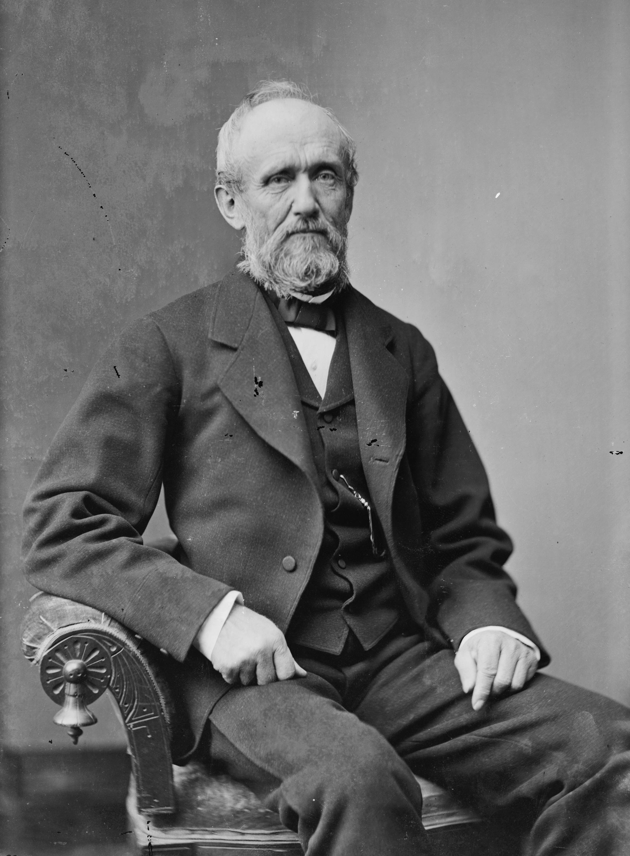 D. Wyatt Aiken. Library of Congress description: "Aiken, Hon. D. Wyatt of S.C."